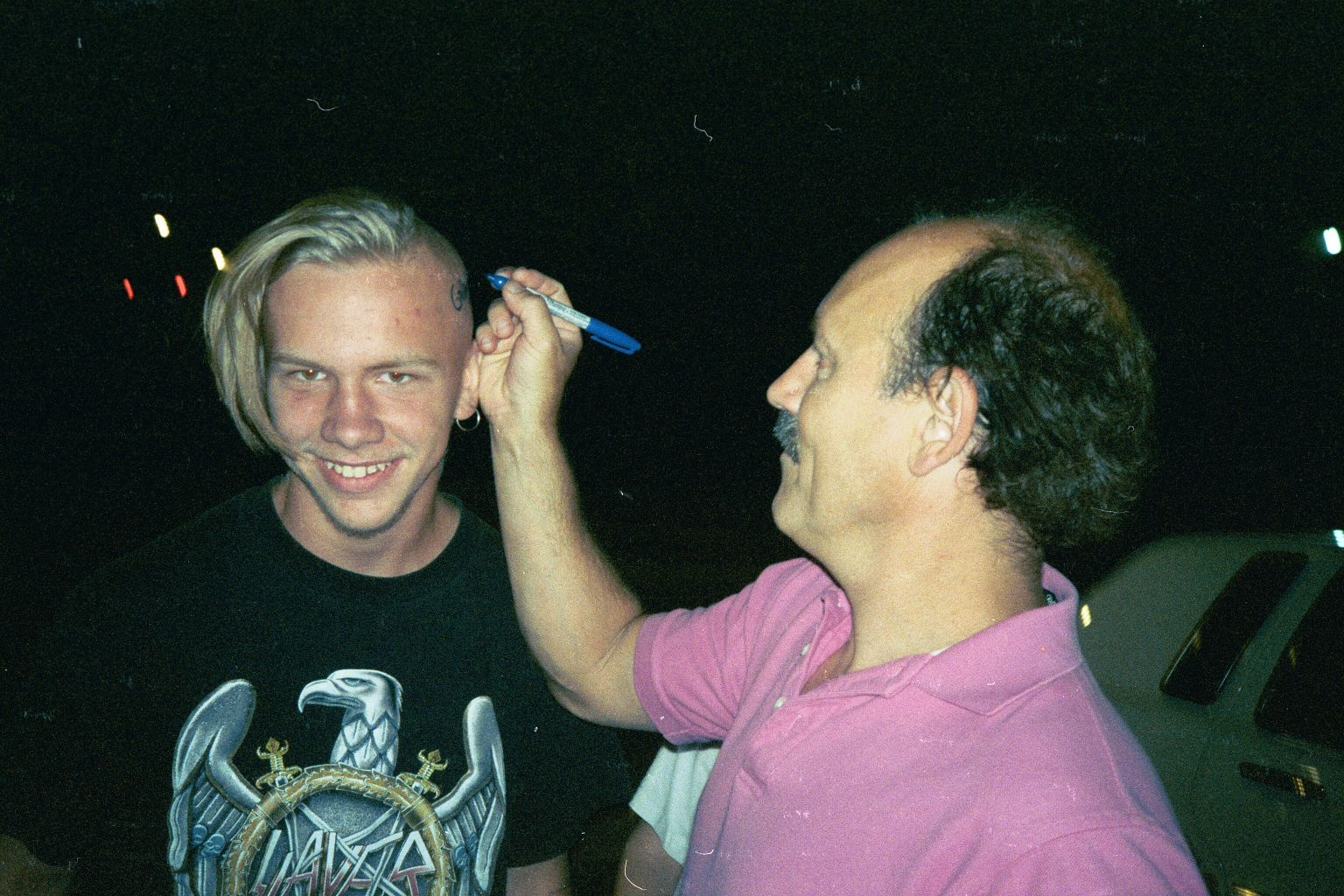 Baltimore M.D. Joseph Meyerhoff symphony theater 1996